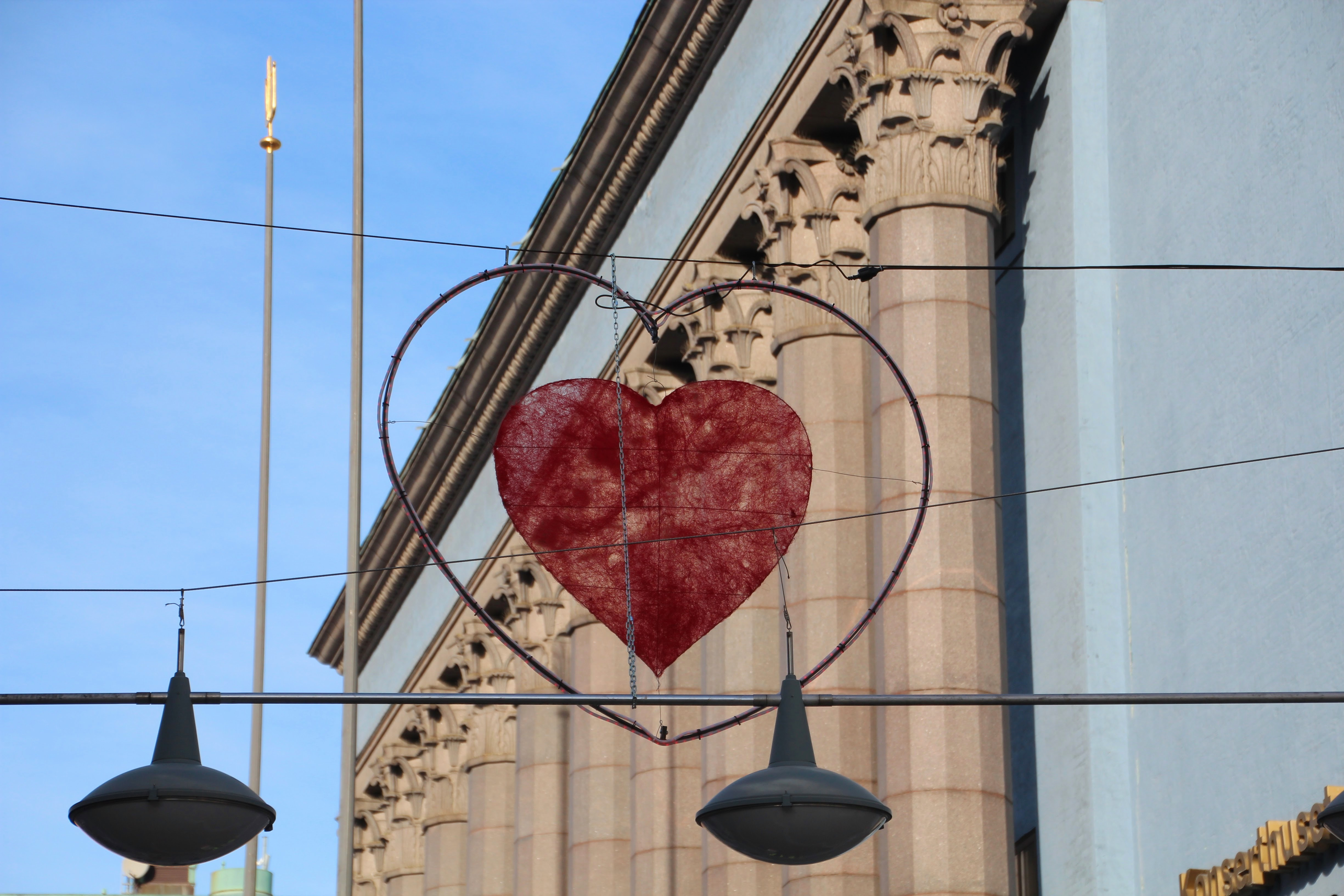 Heart shaped street decoration outside the Concert House in Stockholm, Sweden